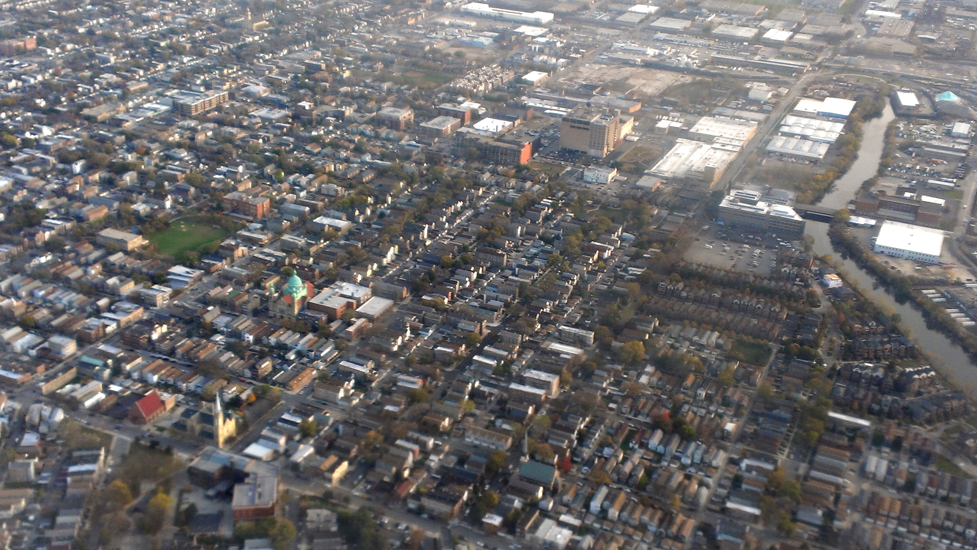 Bridgeport neighborhood